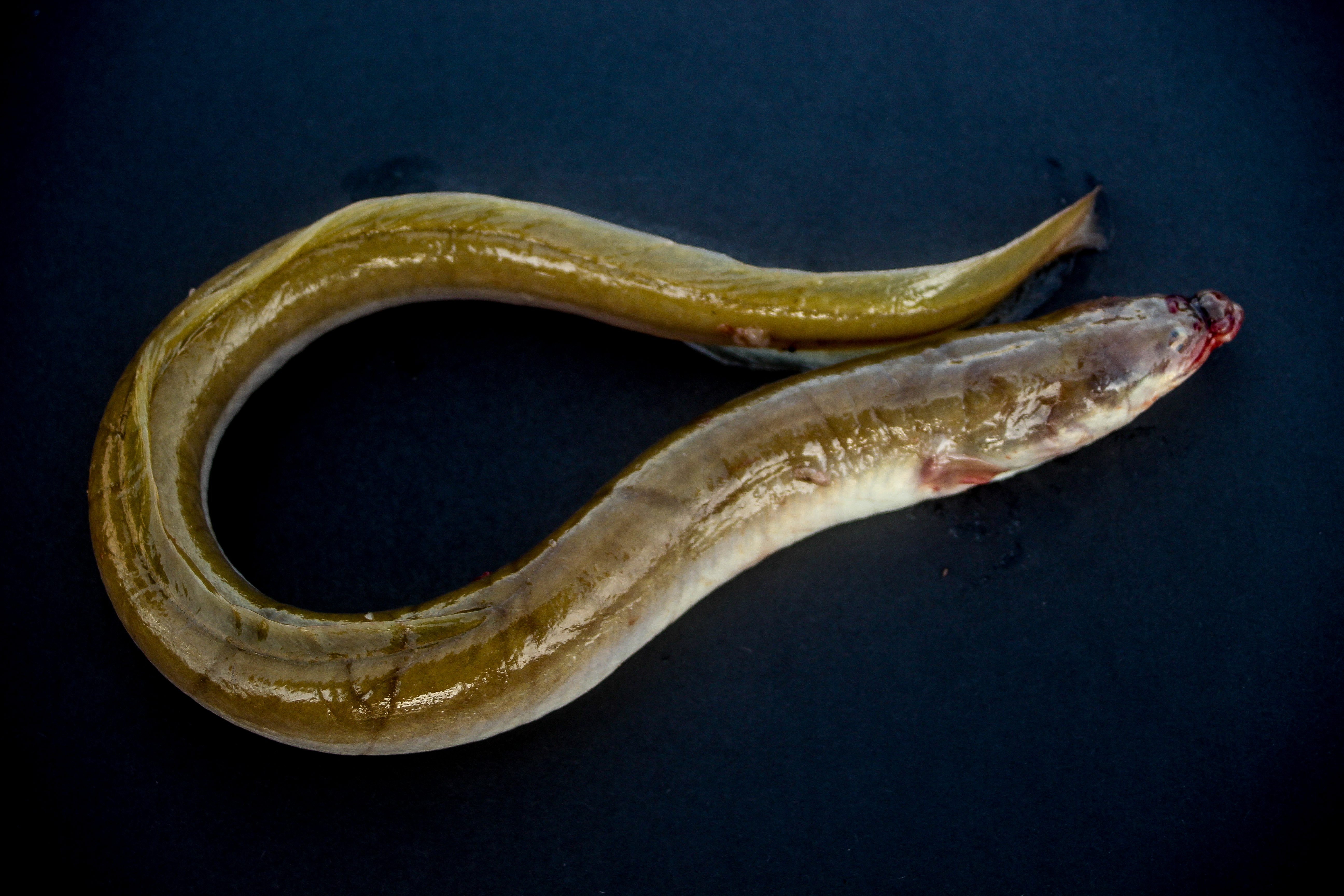 The eel is still becoming extinct Holland